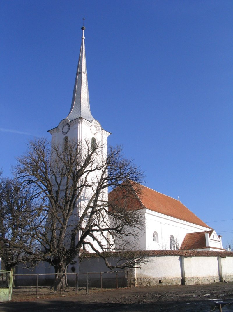 Reformed church of Tălişoara (hu. Olasztelek), Covasna County ó, Transylvania, Romania